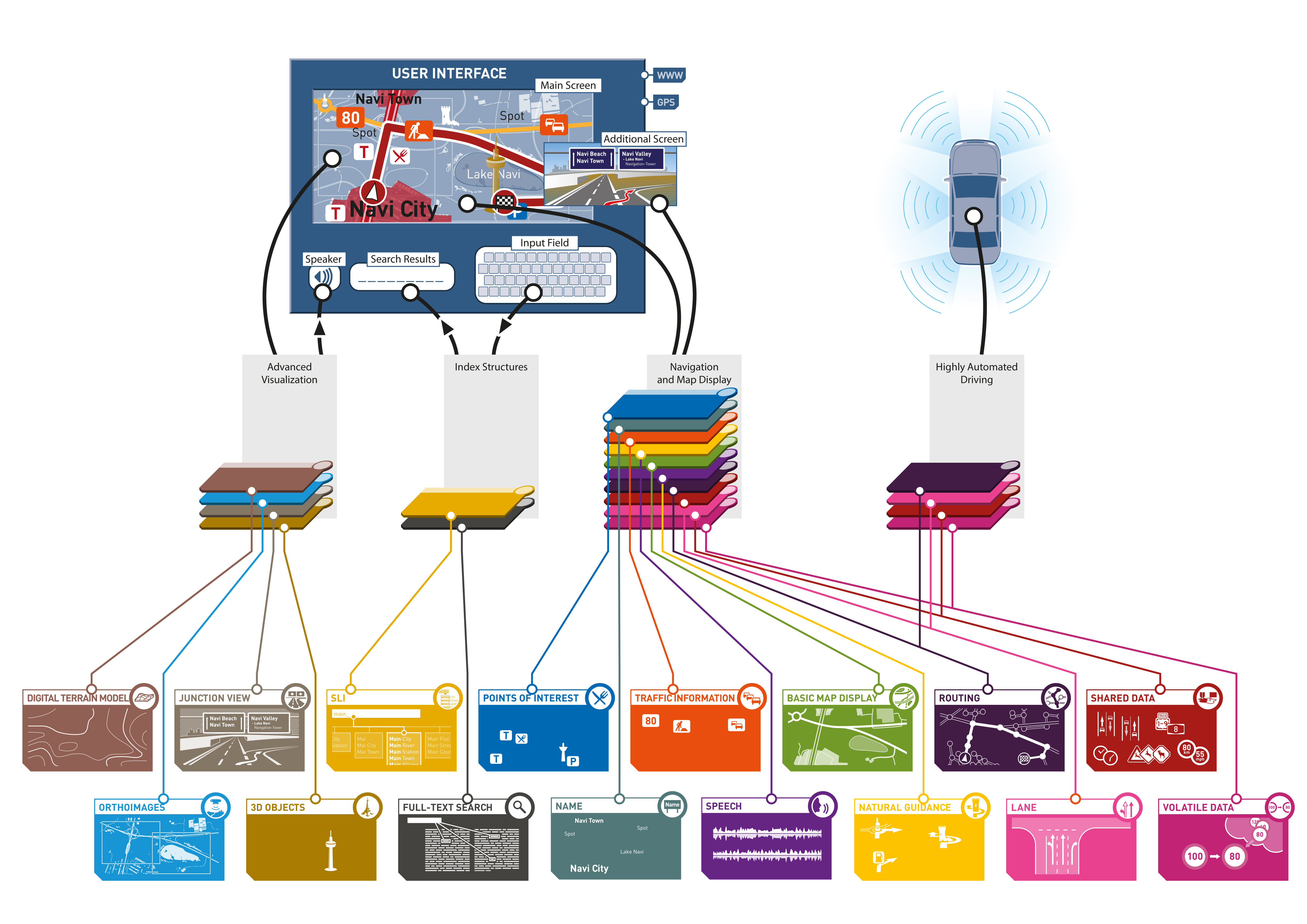 Overview of the NDS building blocks